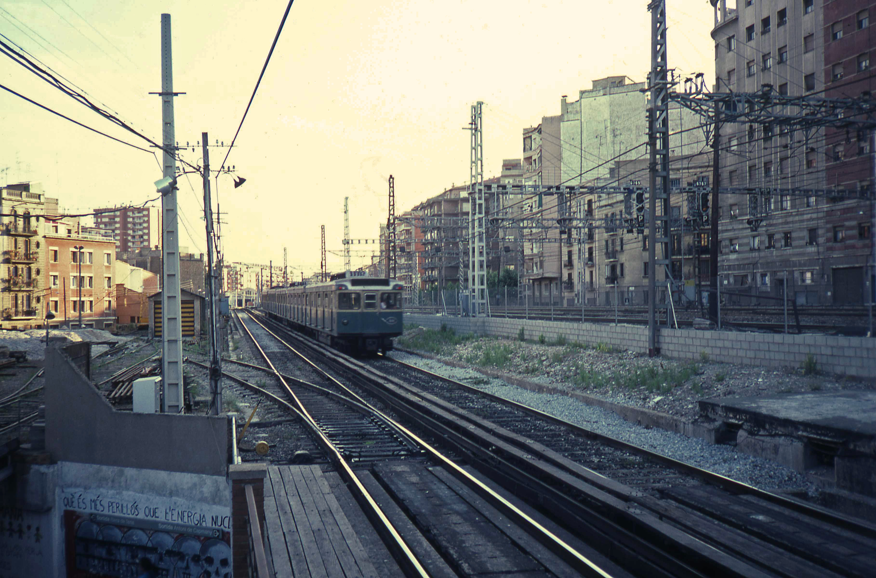 Old metrotrain type 600 op metroline 1, next to the railwayline in 1987.